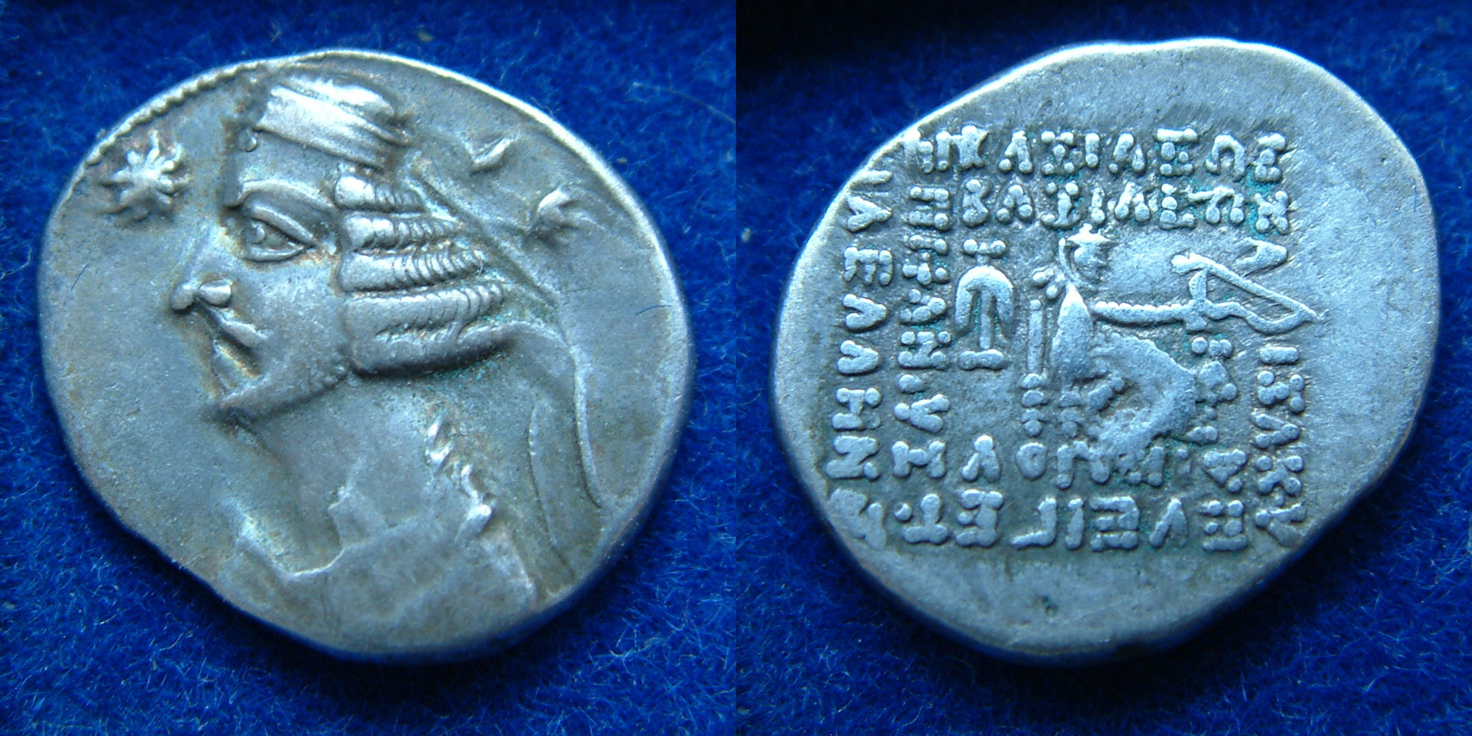 A silver drachm of the Parthian King Orodes 2nd 57-38 B.C. AR Drachm Mint/ Ecbatana, undated